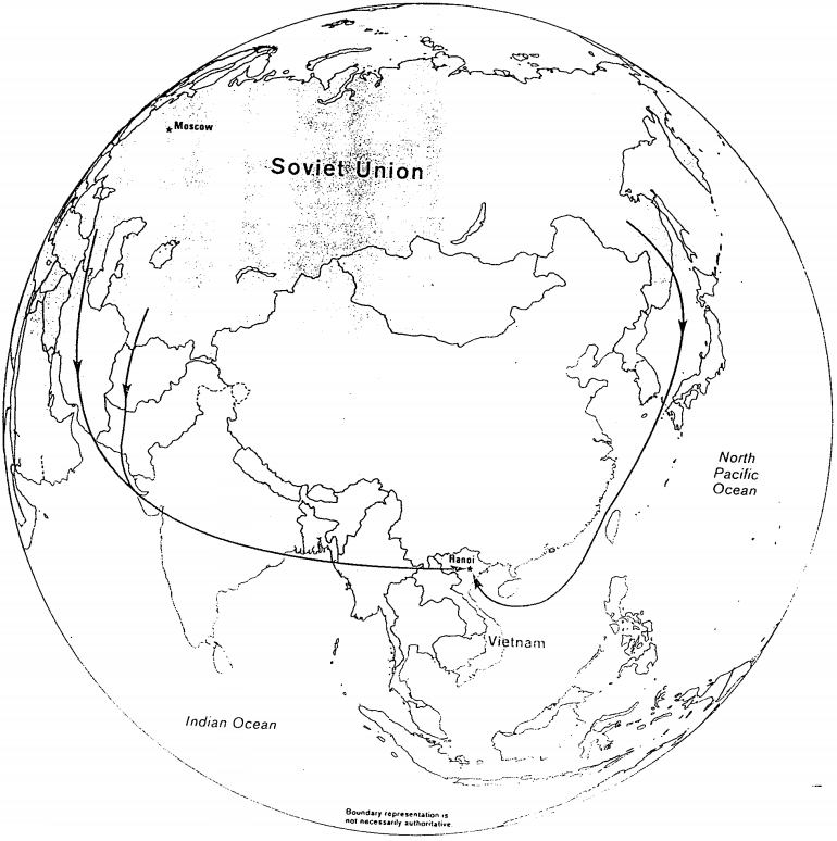 VTA Airlift Routes to Vietnam, 1979.